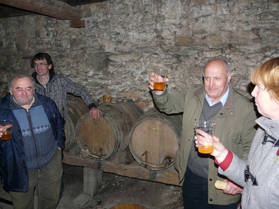 Cider celebration in the Basque Country.